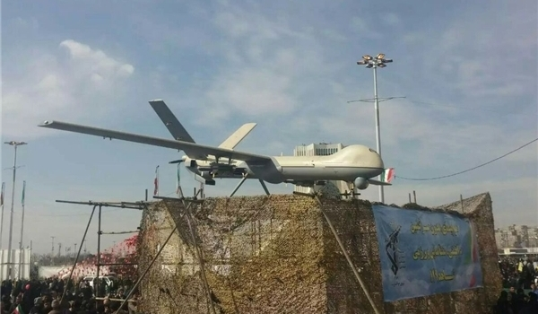 The second generation of the Shahed 129 UAV, with satellite radome, in Tehran's Azadi Square, where it was unveiled on February 11 2016.